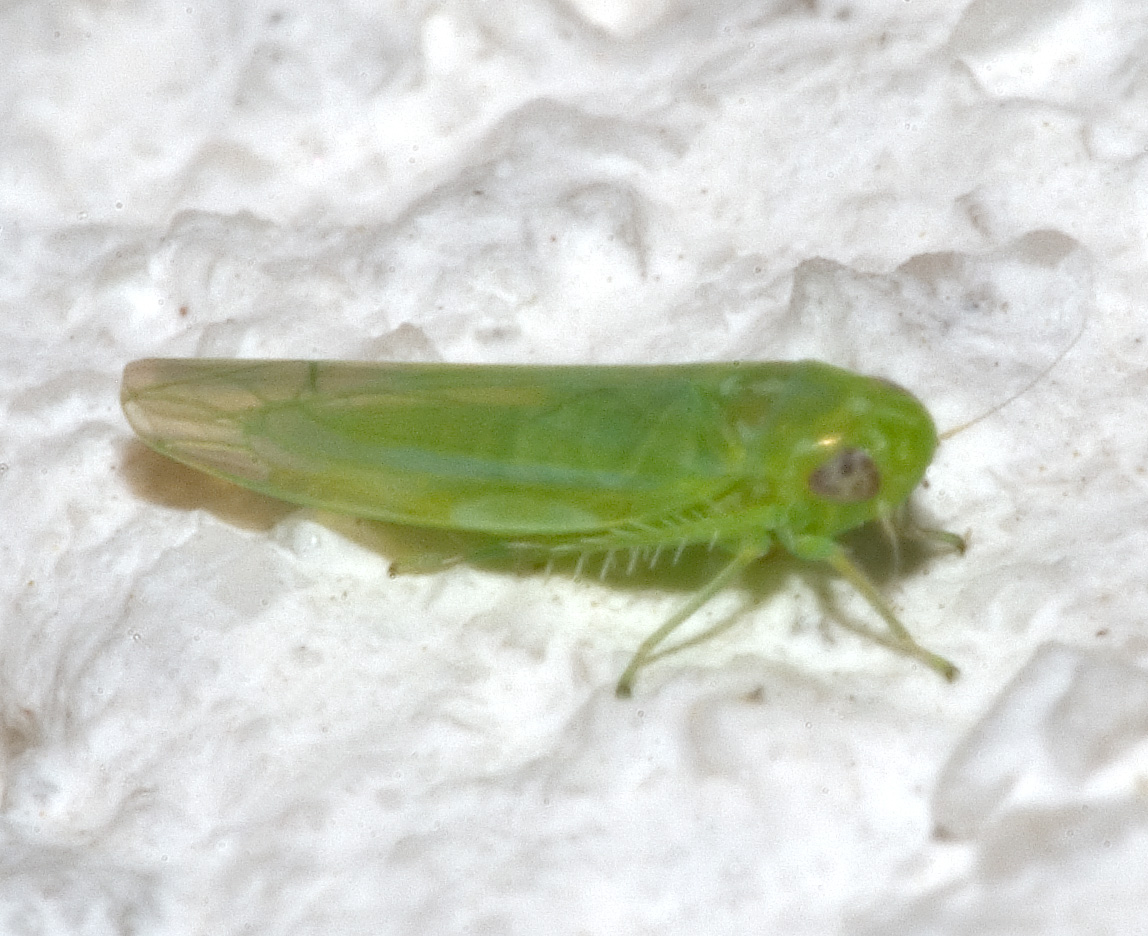 Please report references to kulacgmx.at.